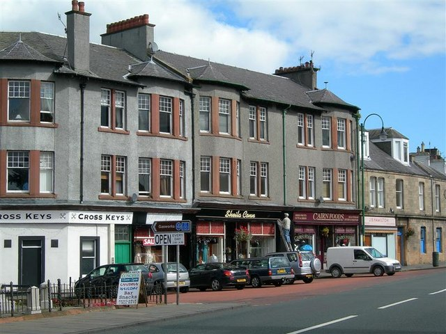 Biggar High Street Attractive shops and houses in Biggar High Street, on the south-west side of the town.